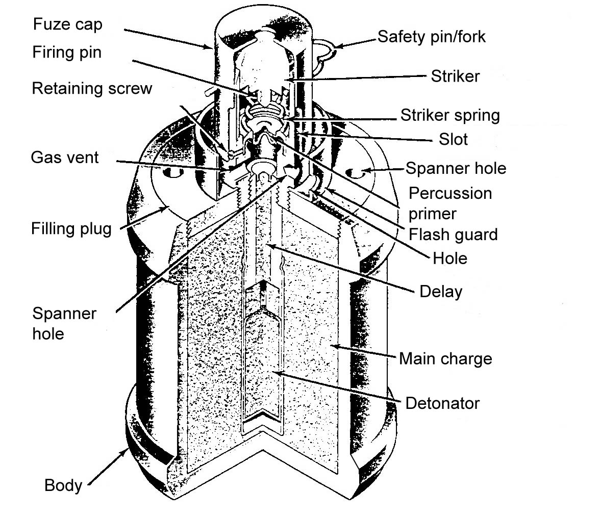 A Japanese WWII Type 99 grenade cutaway.